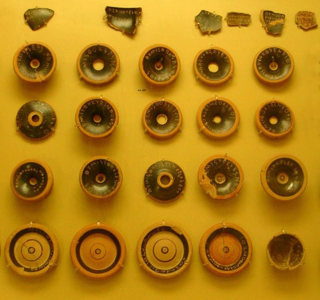 These ostraka from 482 BC were recovered from a well near the Acropolis. The Athenians had a particular voting technique to remove a citizen from the community. If ostracized, the person was exiled for ten years, and after that time could return and have their property restored. Themistocles was a great Athenian general, but the Spartans worked to have him exiled. After his ostracism, he moved to Persia, Athen's enemy, where King Artaxerxes I made him governor of Magnesia. Ancient Agora Museum in Athens.